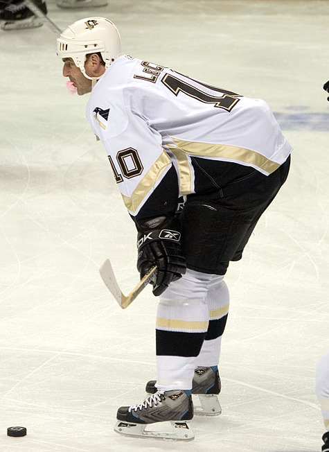 Pittsburgh Penguins vs. San Jose Sharks, #10 John Leclair, #20 Colby Armstrong and #44 Brooks Orpik